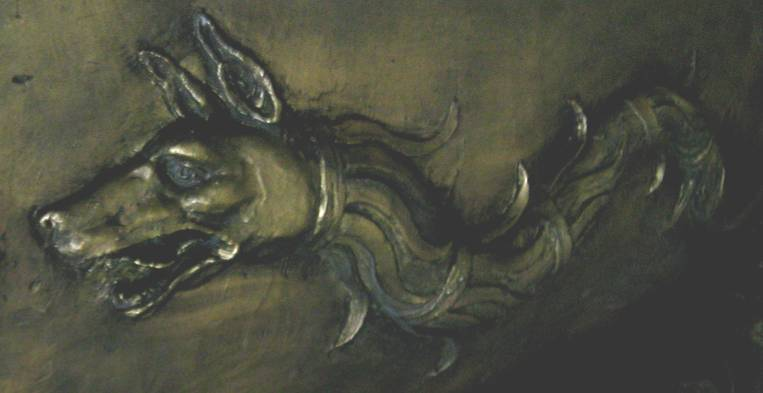 Dacian Draco of the ancient Dacians at Military Museum, Bucharest, Romania.